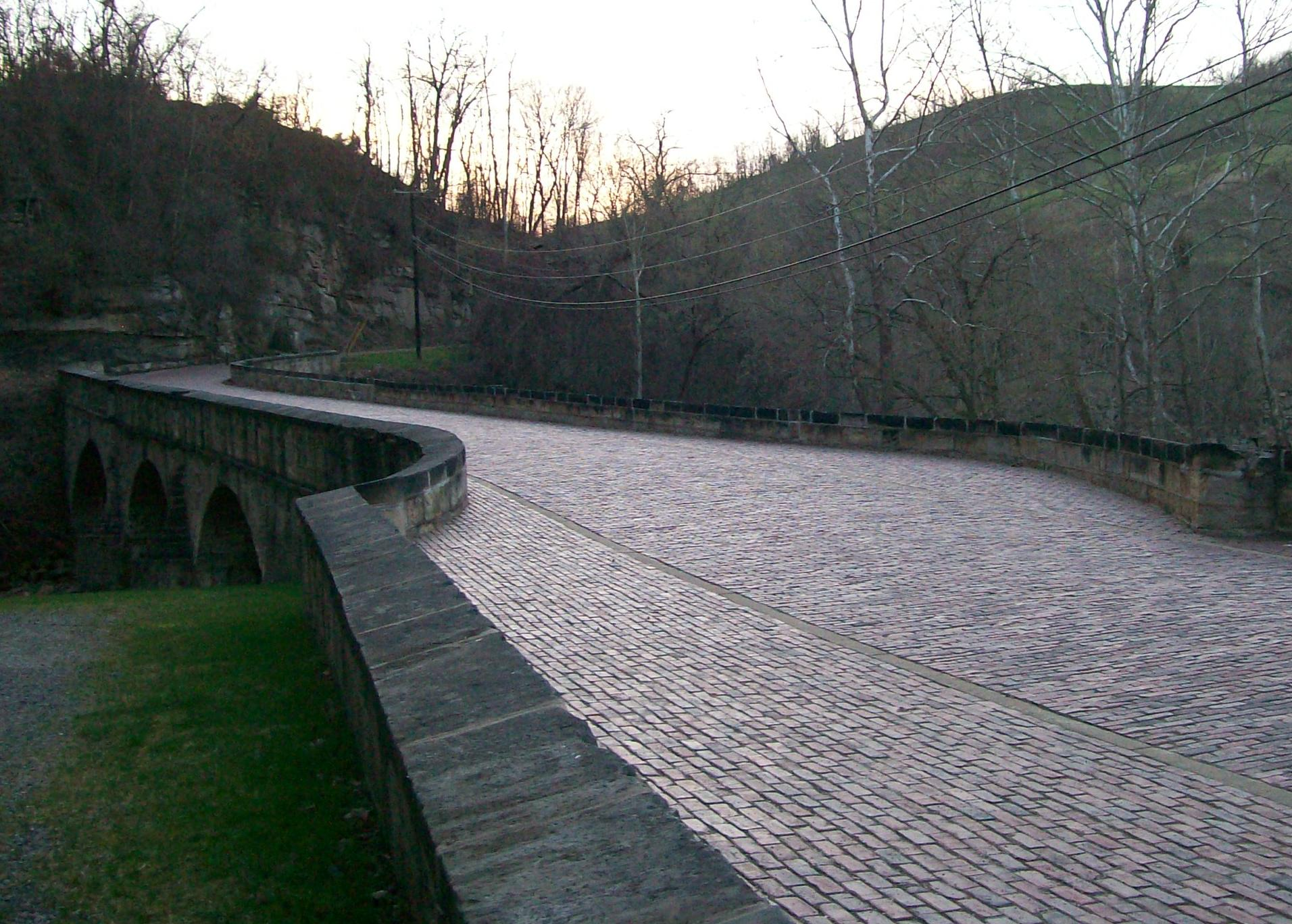 The Blaine Hill S Bridge just outside Blaine, Ohio. The bridge crosses the Wheeling Creek and was built in 1828. The bridge is photographed looking northwest over the bridge. The bridge was listed on the NRHP on March 17, 2010 and was photographed on April 4, 2010.